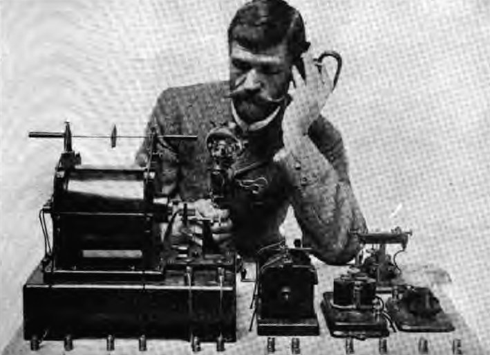 Photograph of inventor Frederick Collins at a wireless telephony device circa 1903